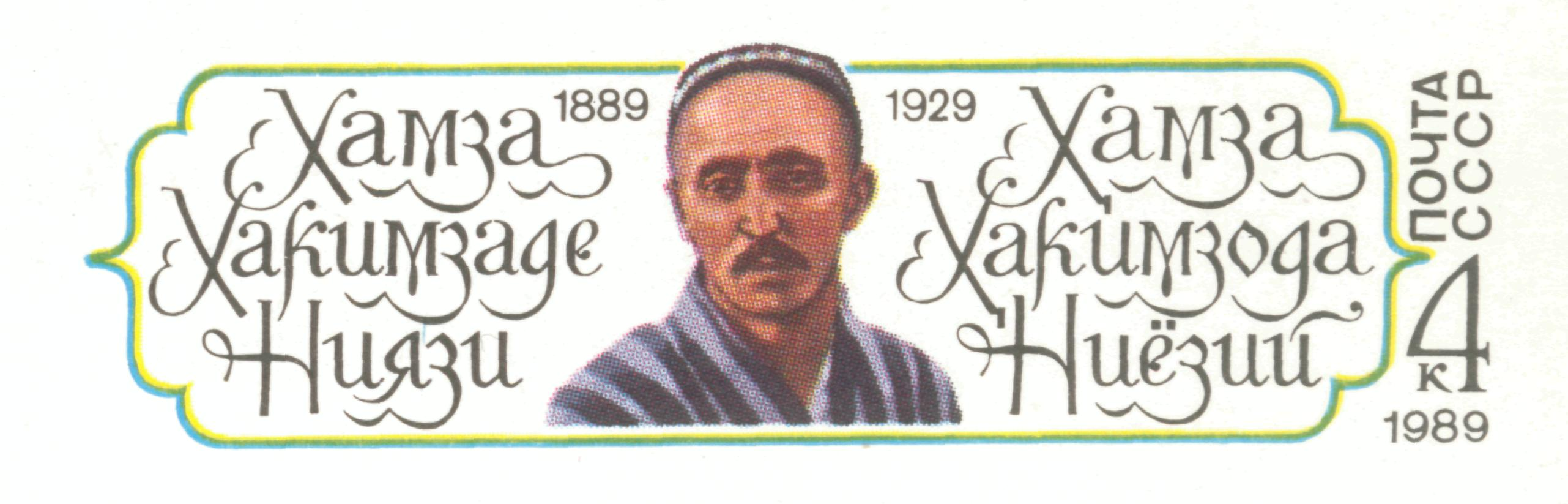 Soviet preprinted (original) stamp of 4 kopecks, (1989). Centenary of Hamza Hakimzade Niyazi's birthday, (1889-1929). Uzbek poetry who supported bolsheviks. Detail of a postcard of the Soviet Union (postal stationery).